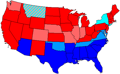 Summary of party control of U.S. house seats in the 71st United States Congress following election. Stripes indicate a tie between two or more parties. Legend: 80.1-100% Democratic seat majority 60.1-80% Democratic seat majority 60% or less Democratic seat plurality 60% or less Republican seat plurality 60.1-80% Republican seat majority 80.1-100% Republican seat majority